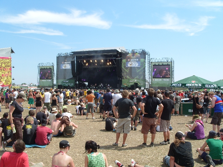 Festival Soutside 2008 - day 3